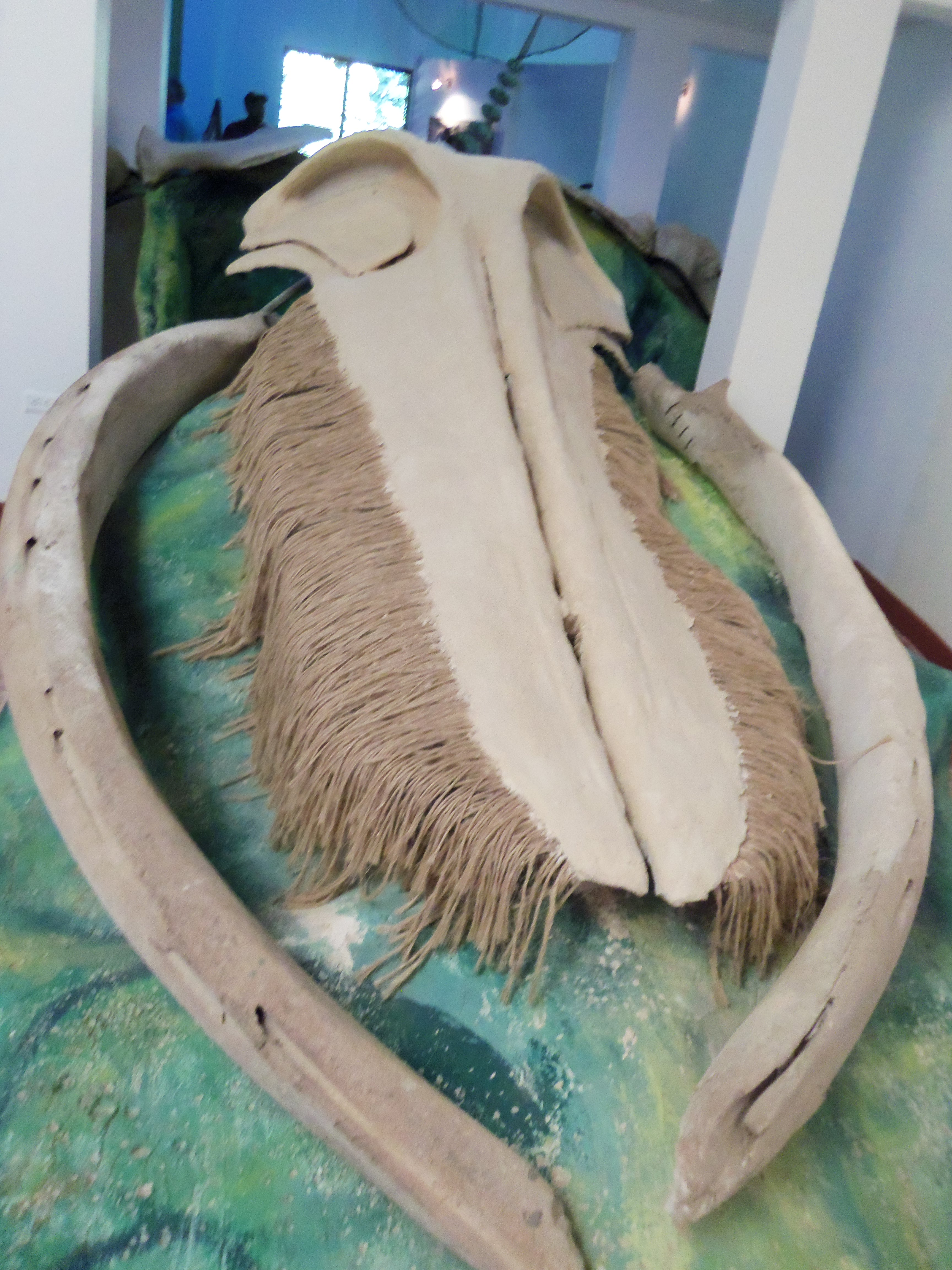 A 40-foot (12 m) female humpback skeleton in the Whale Museum & Nature Center (Centro de Naturaleza) in Santa Bárbara de Samaná, Dominican Republic.